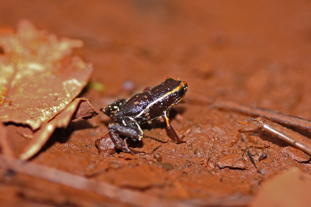 Heard calling and then found in the leaf litter, within Alejandro de Humboldt National Park.